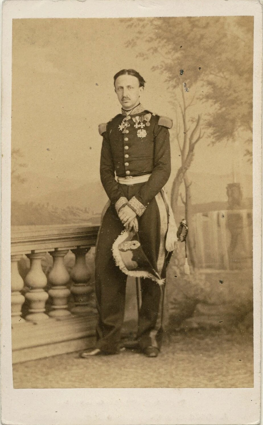 Francis II of the Two Sicilies (1836-1894)